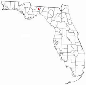 Altered copy of a map existing in other Florida articles.